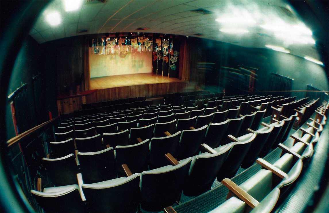 Configuração atual do teatro, com capacidade para 200 espectadores sentados. Foto por: Dornellas.